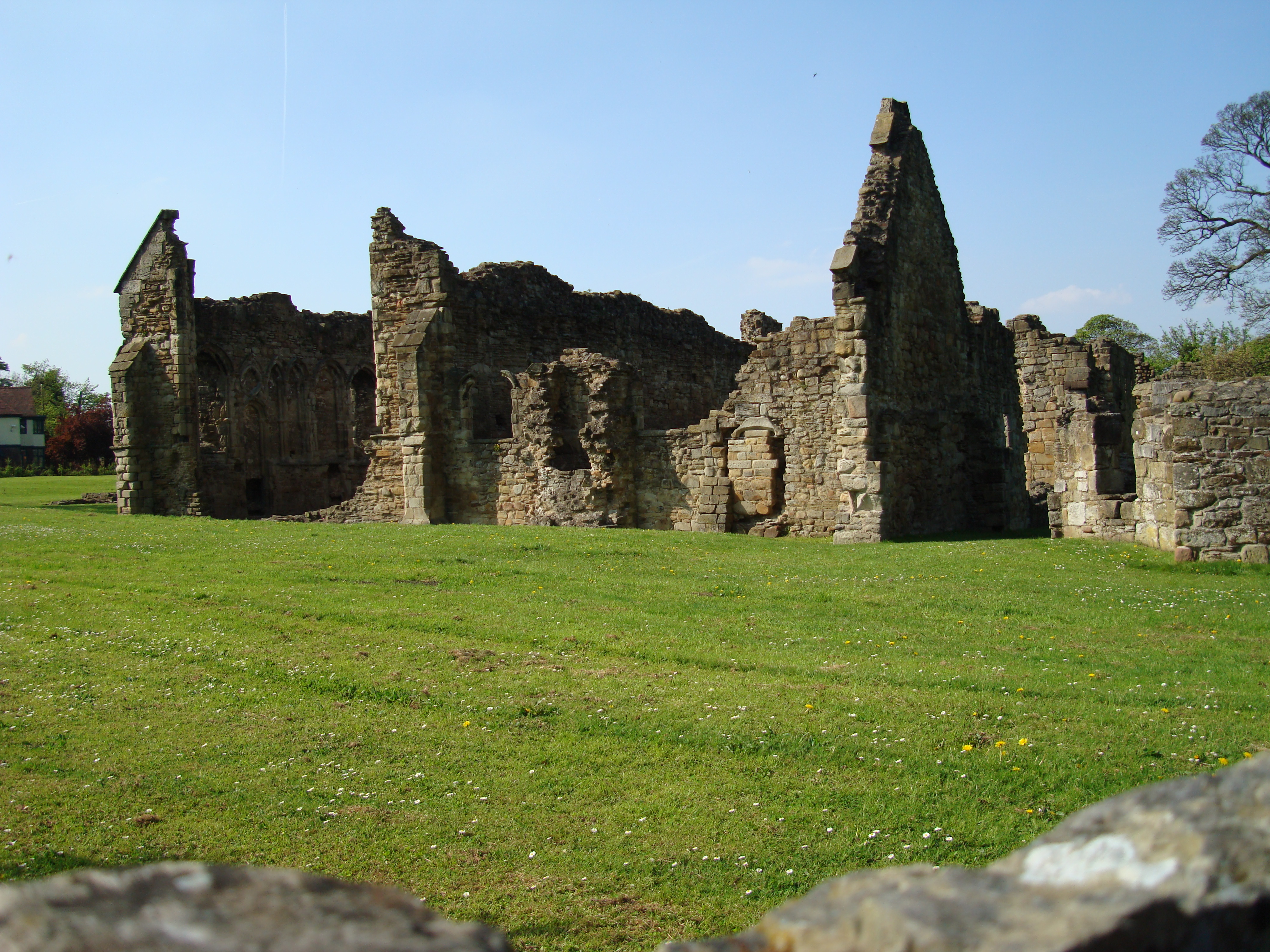 Photograph of Basingwerk Abbey, Flintshire, Wales